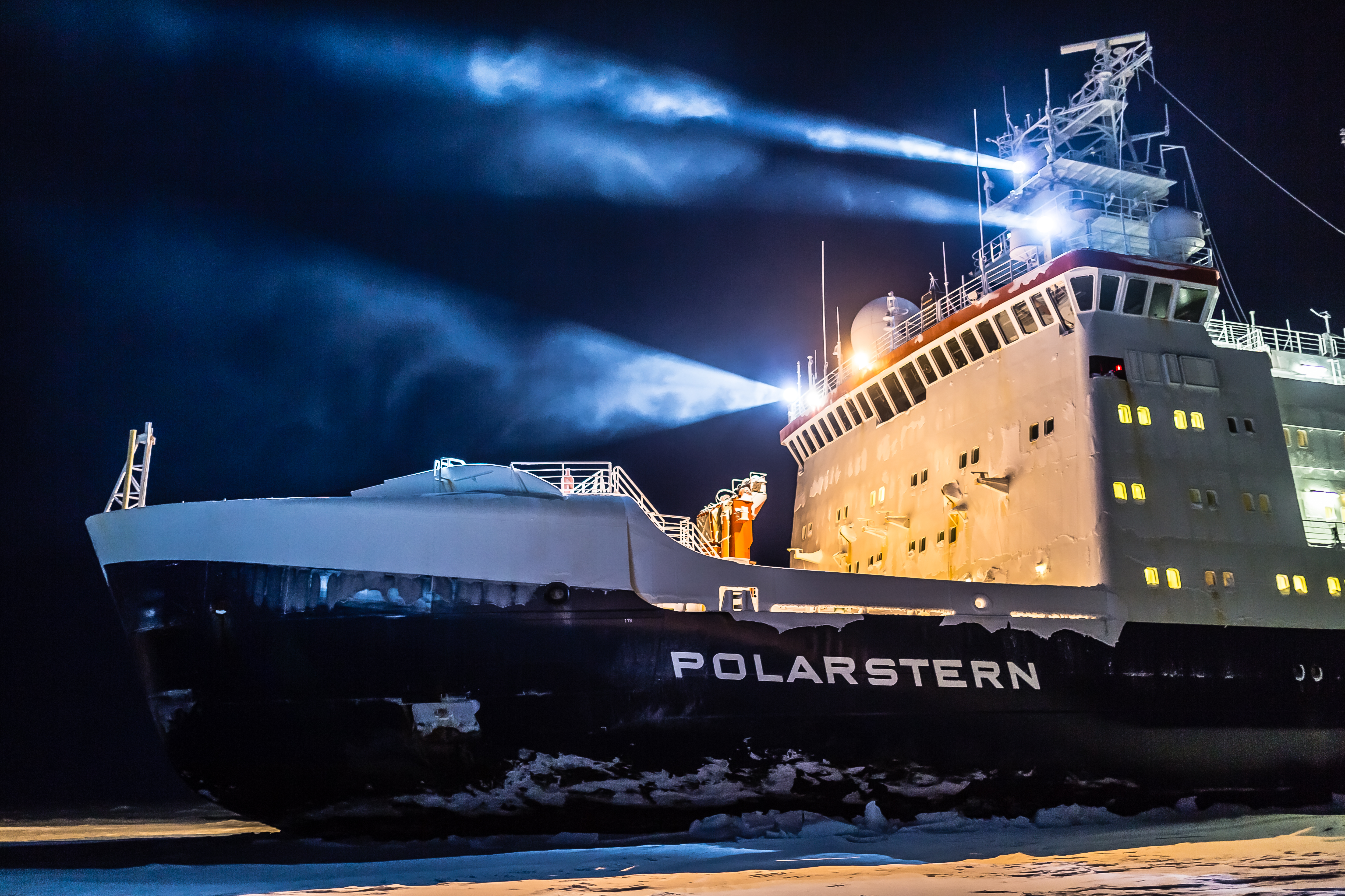 The Multidisciplinary drifting Observatory for the Study of Arctic Climate (MOSAiC) expedition will make a major contribution to Arctic climate science. Spearheaded by the Alfred Wegener Institute, Helmholtz Centre for Polar and Marine Research (AWI), it is the biggest polar expedition of all time. It involves the Polarstern German research icebreaker spending a year trapped in the sea ice so that scientists from around the world can study the Arctic as the epicentre of global warming and gain fundamental insights that are key to better understand global climate change – and ESA is contributing with a range of experiments.